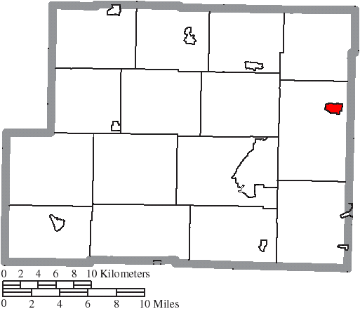 Map of the municipal and township boundaries of Harrison County, Ohio, United States, as of the 2000 census, with the location of the village of Hopedale highlighted. Township borders are shown only in unincorporated areas in order to differentiate incorporated and unincorporated areas more clearly.